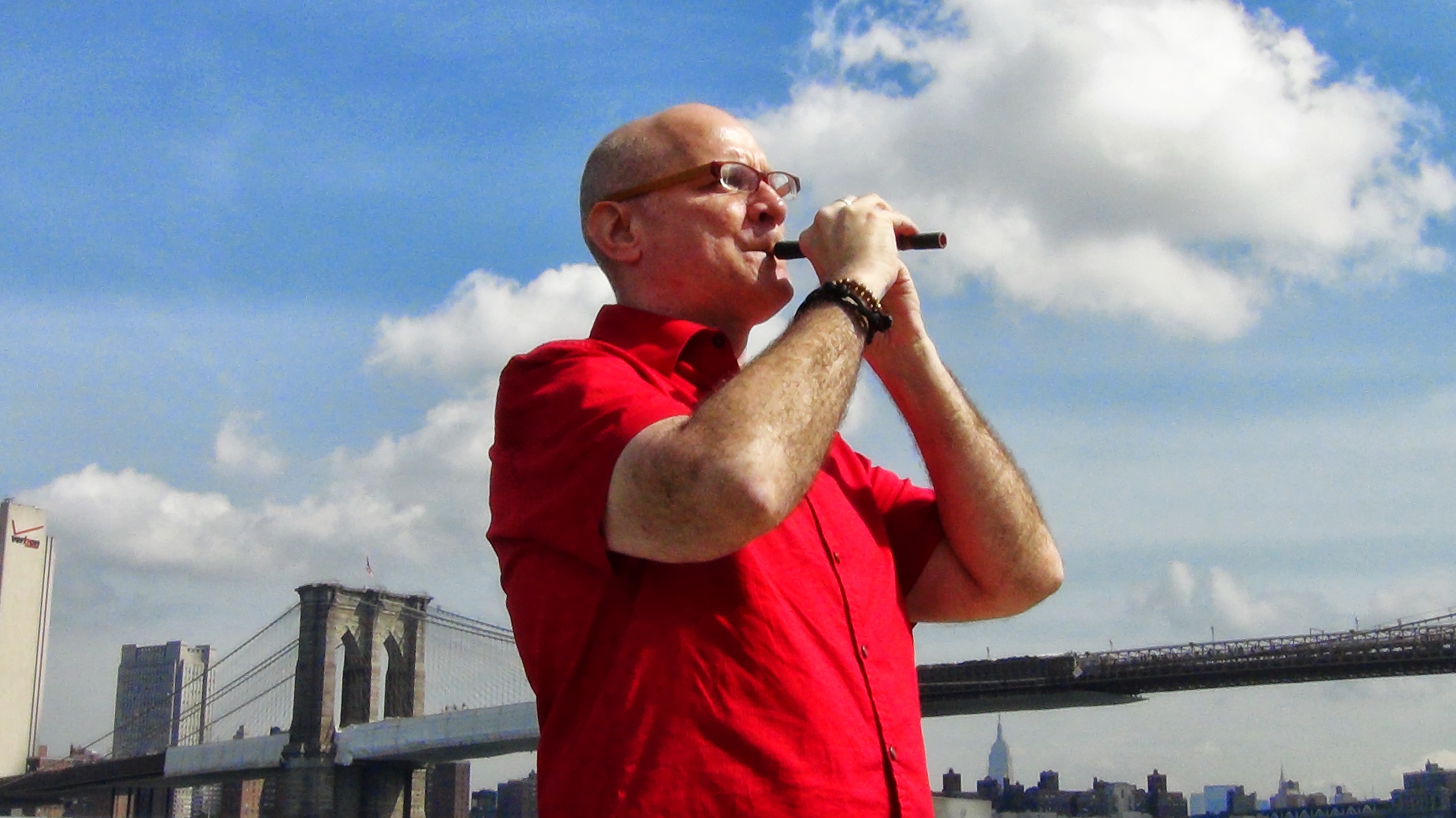 Thomas Piercy - Hichiriki 篳篥